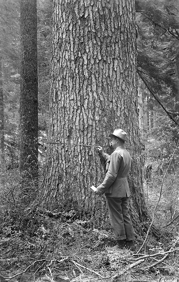 Trunk of Abies procera (Noble Fir)